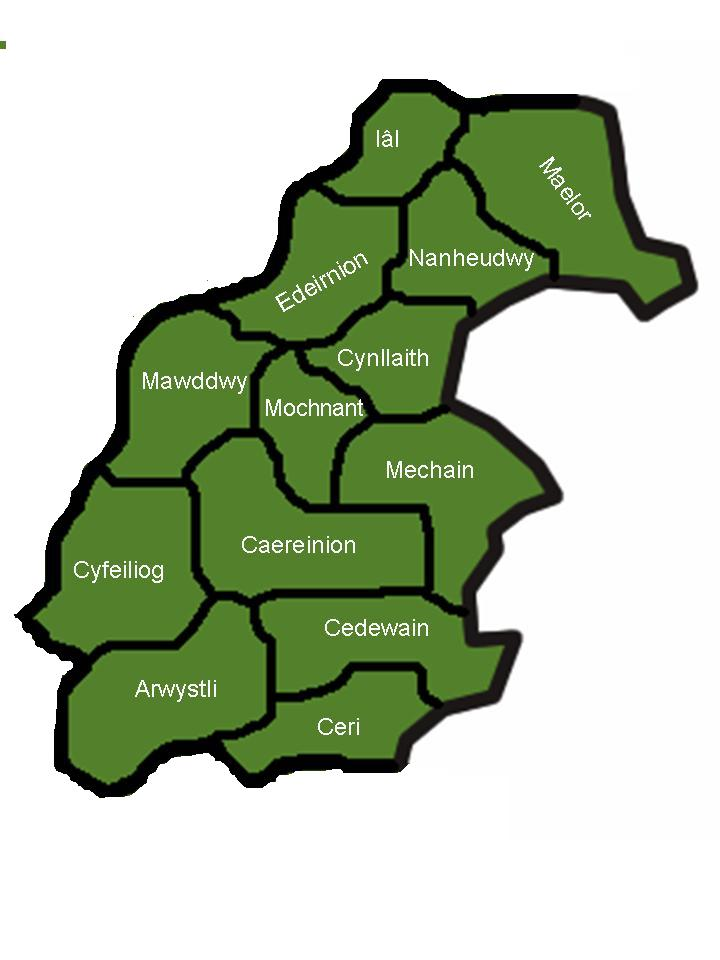 a very basic outline of the Cantrefi of Powys (from about 1000AD until 1215)